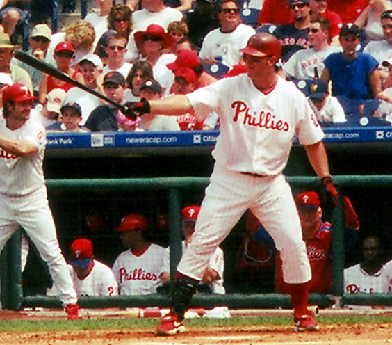 Jim Thome with the Philadelphia Phillies in 2005